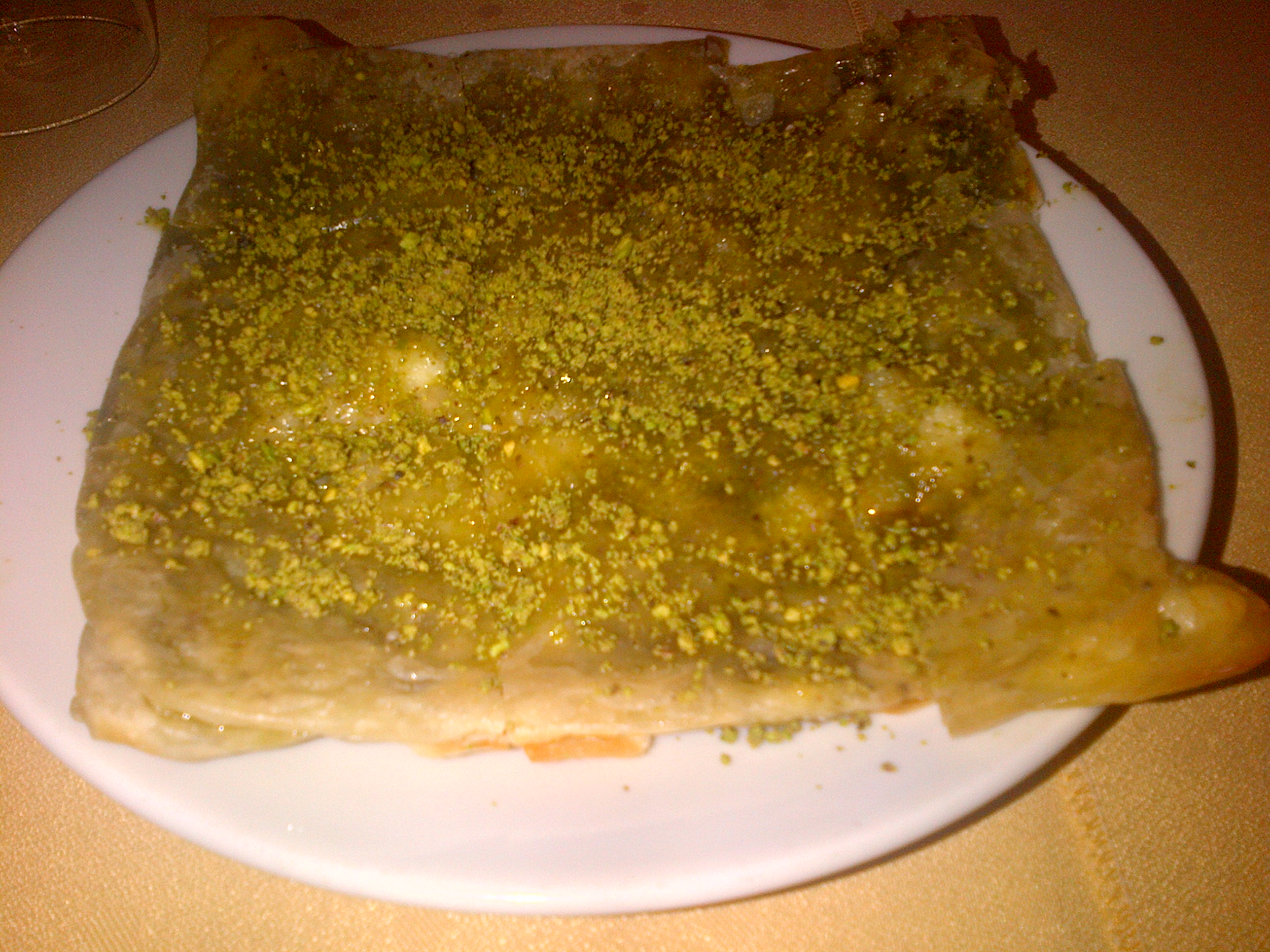 Sweet "katmer" (a kind of flatbread) with kaymak, pistacho nuts, butter and sugar (or honey) is a Turkish dessert, especially famous at the cuisine of Gaziantep.